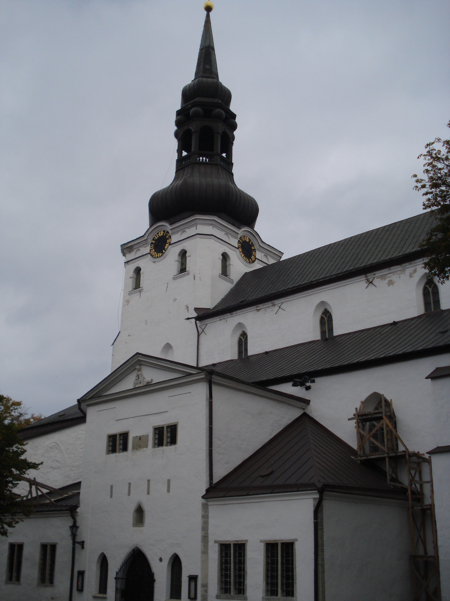 St Mary's Cathedral of Tallinn (Estonian: Toomkirik), Lutheran since 1561